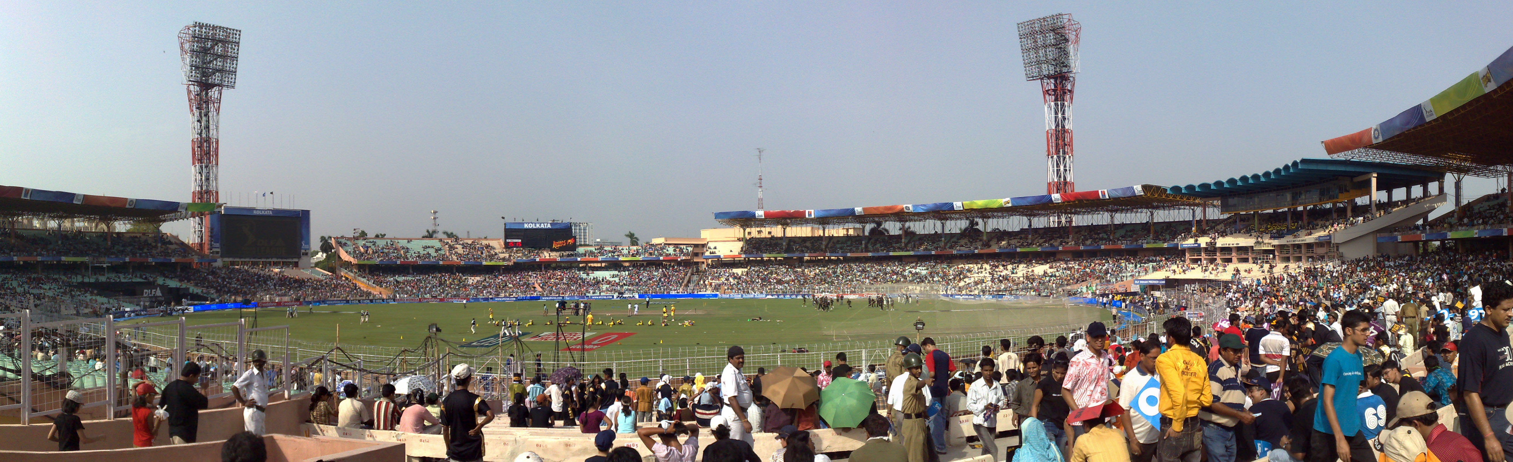 The Eden Gardens stadium just before the beginning of the Indian Premier League match between the Kolkata Knight Riders and the Chennai Super Kings, on the 18th of May, 2008. Knight Riders captain Saurav Ganguly won the toss and decided to bat first, much to the jubilation of the some 80000-strong crowd. But as has been the trend of the Knight Riders in this inaugural IPL tournament, the batting failed to fire once again. Only Salman Butt gave something to cheer in his 54-ball-73 as the Knights managed an under-par 149/5 in their 20 overs. The crowd hoped of some repetition of the fiery bowling of Shoaib Akhtar that had sent the Delhi Daredevils packing in the last match at Eden. But nothing such happened and the Super Kings were cruising happily along when the Nor-Westers accompanied by thundershowers came and put an end to the game. The dropped catch of Parthiv Patel by Ashok Dinda off Ajit Agarkar finally turned out to be the decisive factor as the Super Kings won the match by 3 runs in the Duckworth-Lewis method. In the end, it was a dejected walk back home for the ever-enthusiastic crowd as their team lost out yet again in a close match and are now virtually out of contention for the semifinals of IPL '08. Still Eden Gardens rocks, and we are proud of the best stadium in India and one of the best in the world. The image is formed by stitching three separate images.